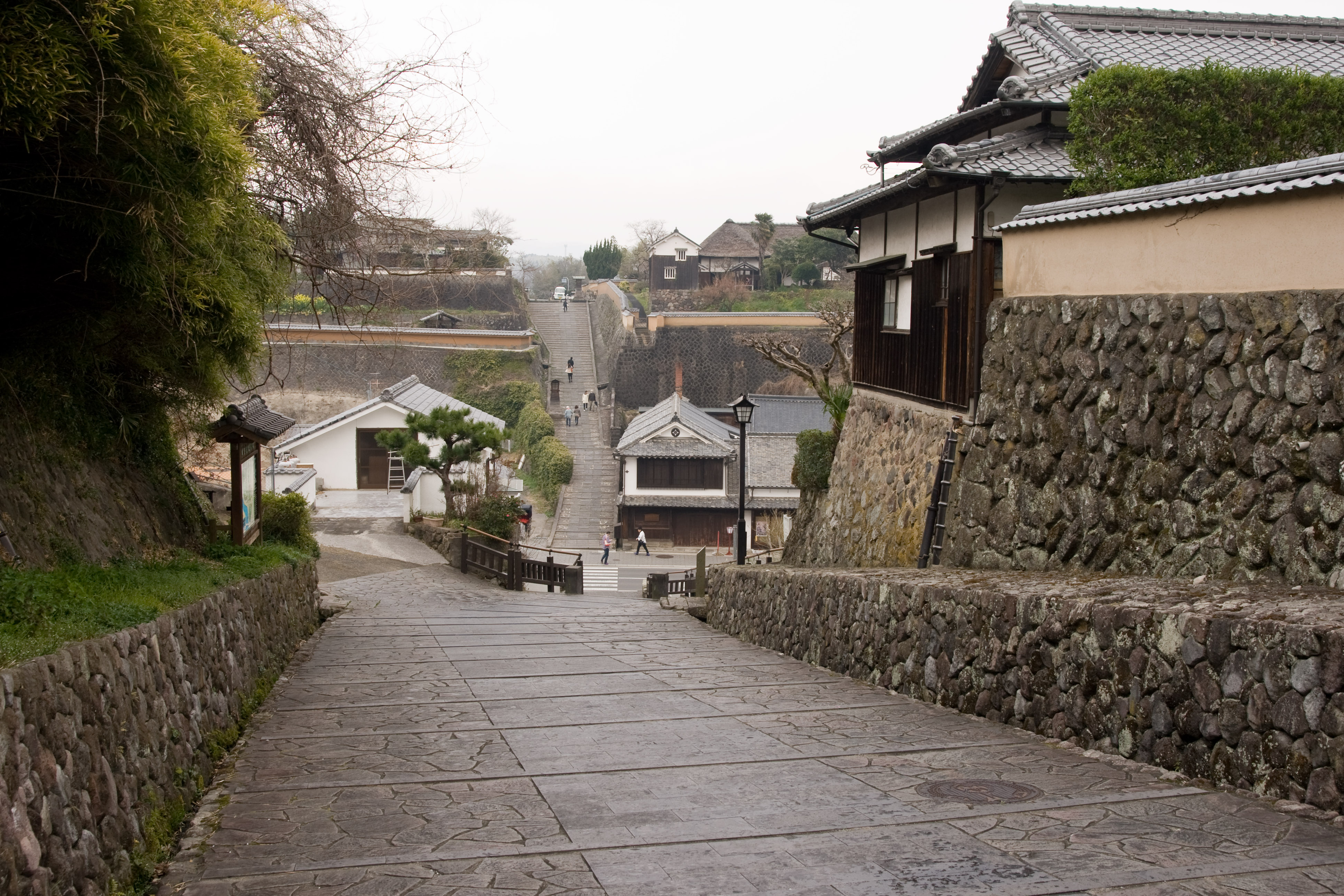 Castle Town of Kitsuki, Kitsuki City, Oita Pref., Japan.